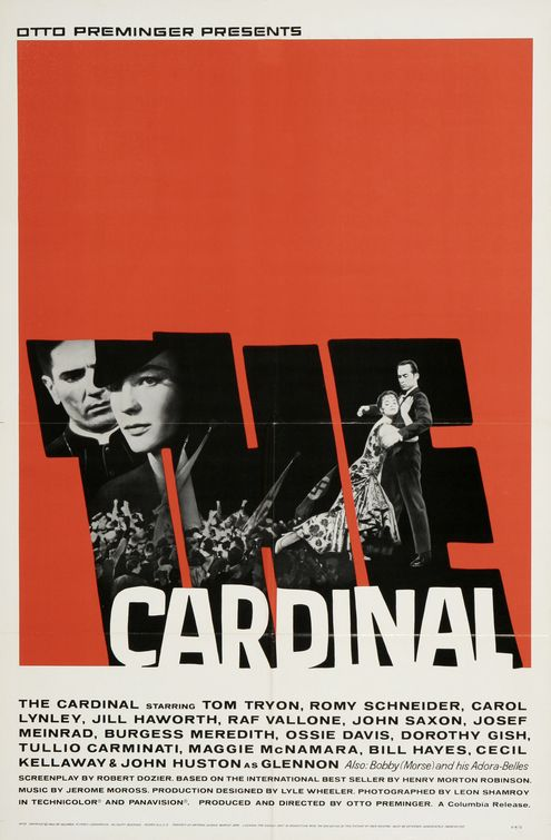 Theatrical poster for the film The Cardinal (1963).